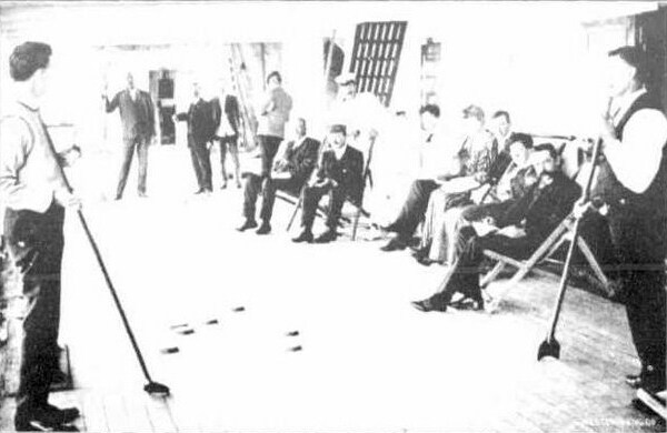 Passengers playing deck billiards (also known as shuffleboard) on SS Koombana.